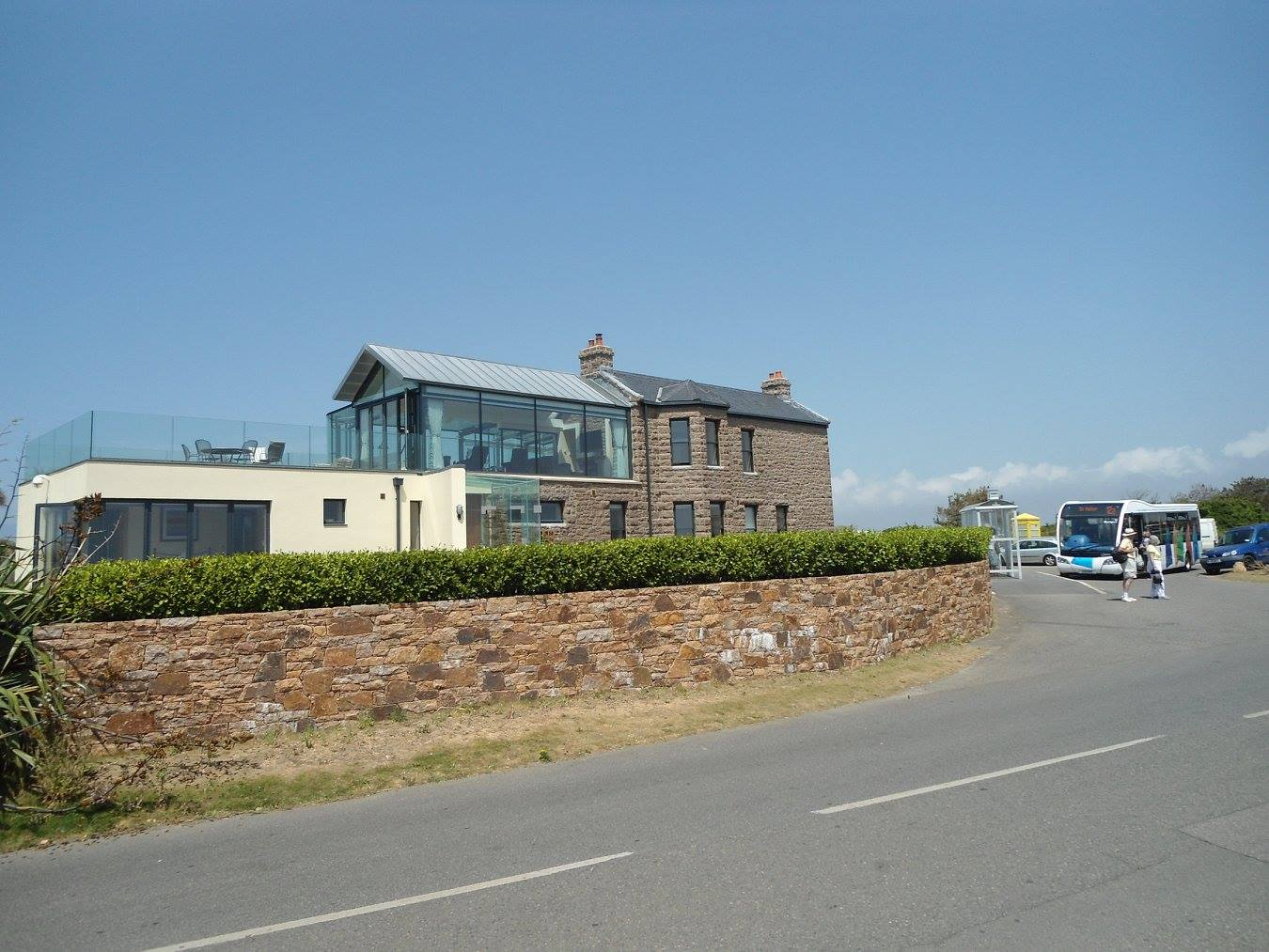 The front of Corbiere railway station, Jersey